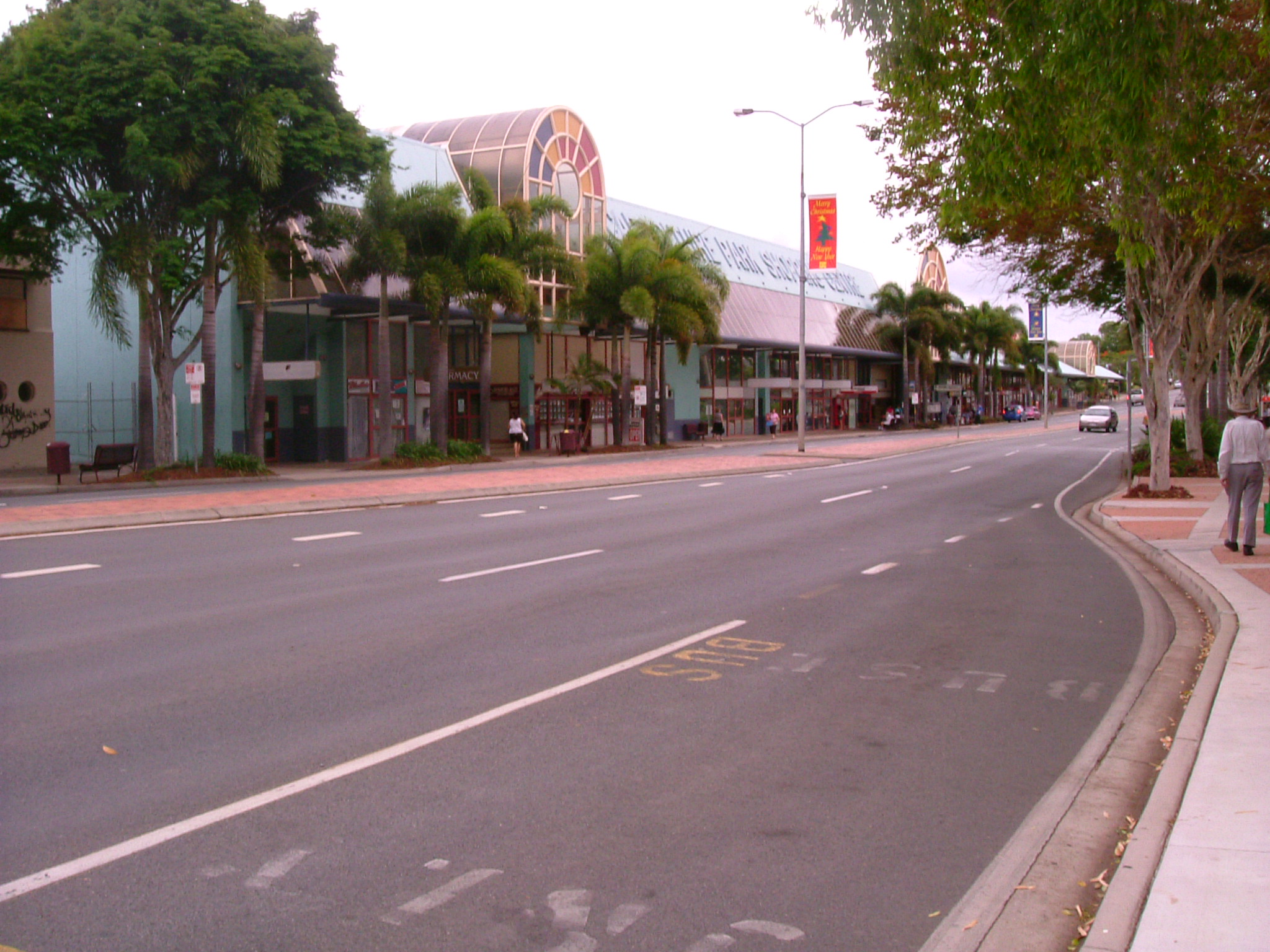 Caboolture CBD, with Caboolture Shopping Centre across the road. By Arnzy 06:10, 8 December 2006 (UTC)